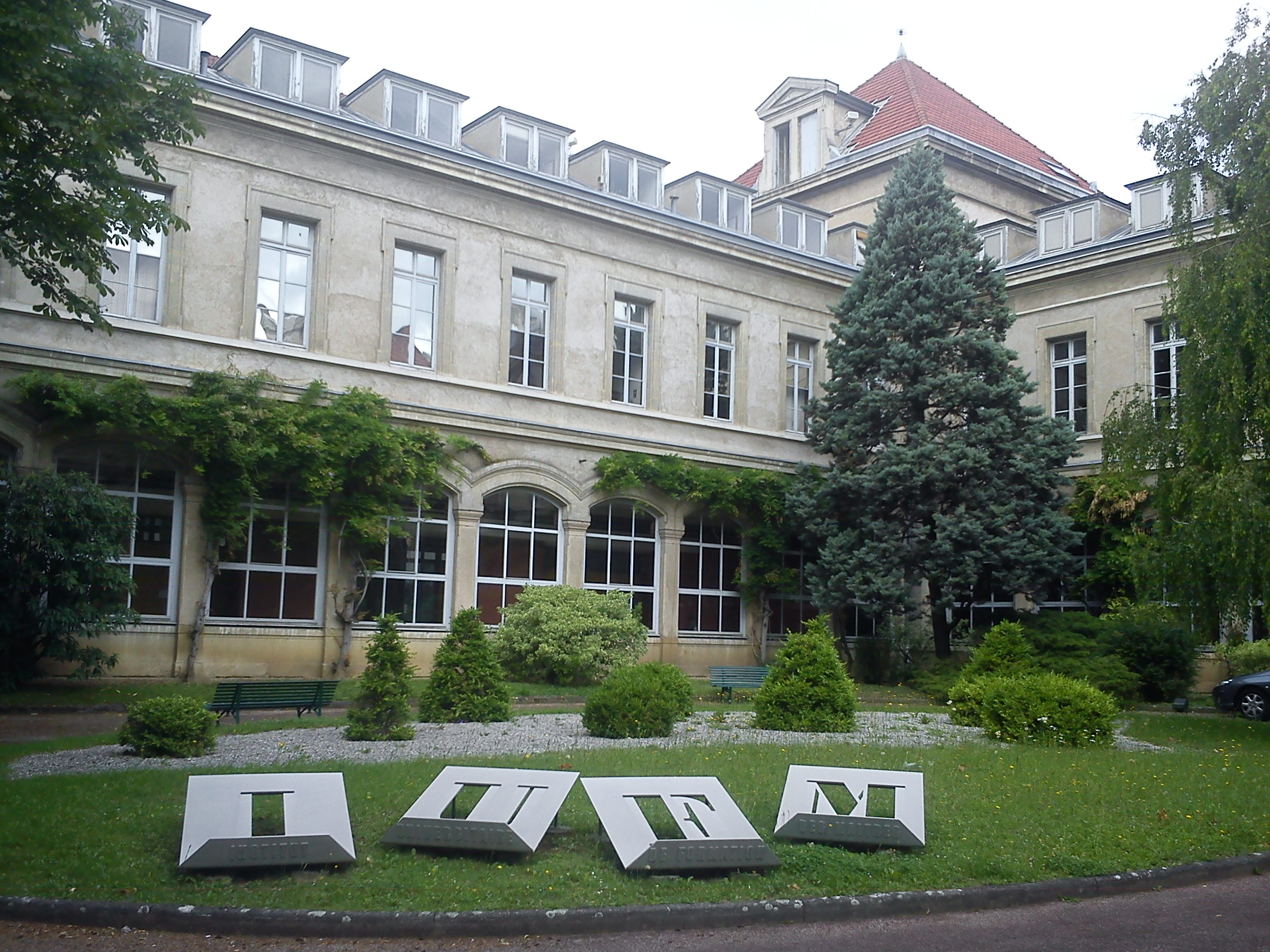 University Institute for Teachers Training of the Croix-Rousse district in Lyon, France